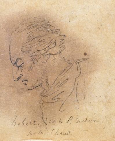 Portrait de Hébert pris sur le vif par Vivant Denon, sur la charrette le conduisant à l'échafaud. Coll.part.